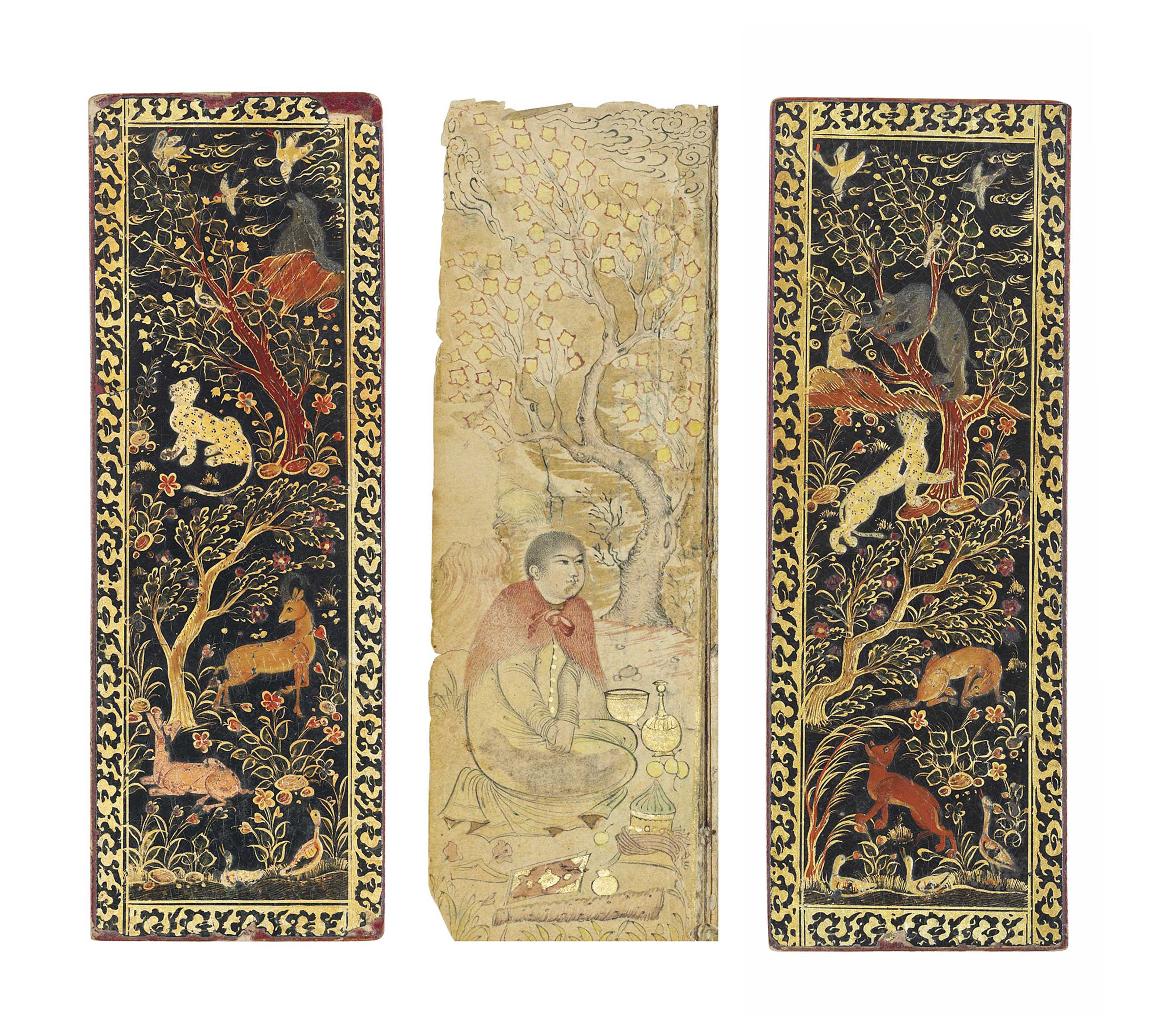 2016 CKS 12241 0039 000(a poetry compilation copied by muhammad rafi al-waiz safavid iran date)